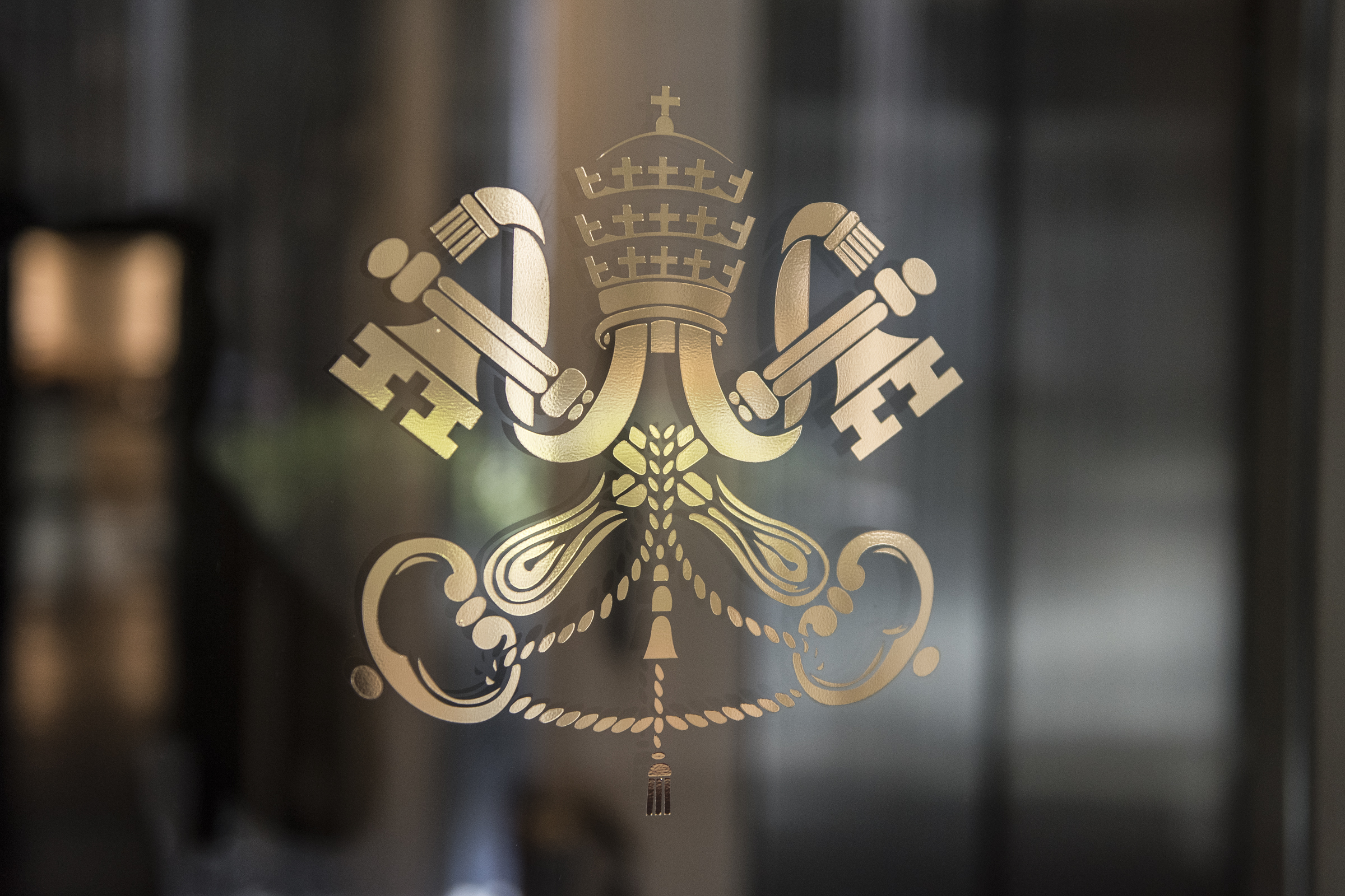 NEW YORK-NY 21 SEPT: In anticiptation of Pope Francis' visit to the United Nations two press briefings were held at the Holy See Mission to the UN on 09 September and 21 September. The briefing was conducted by Archbishop Bernadito C. Auza, Apostolic Nuncio and Permanent Representative of the Holy See to the United Nations. Photo Credit: Jeffrey Bruno